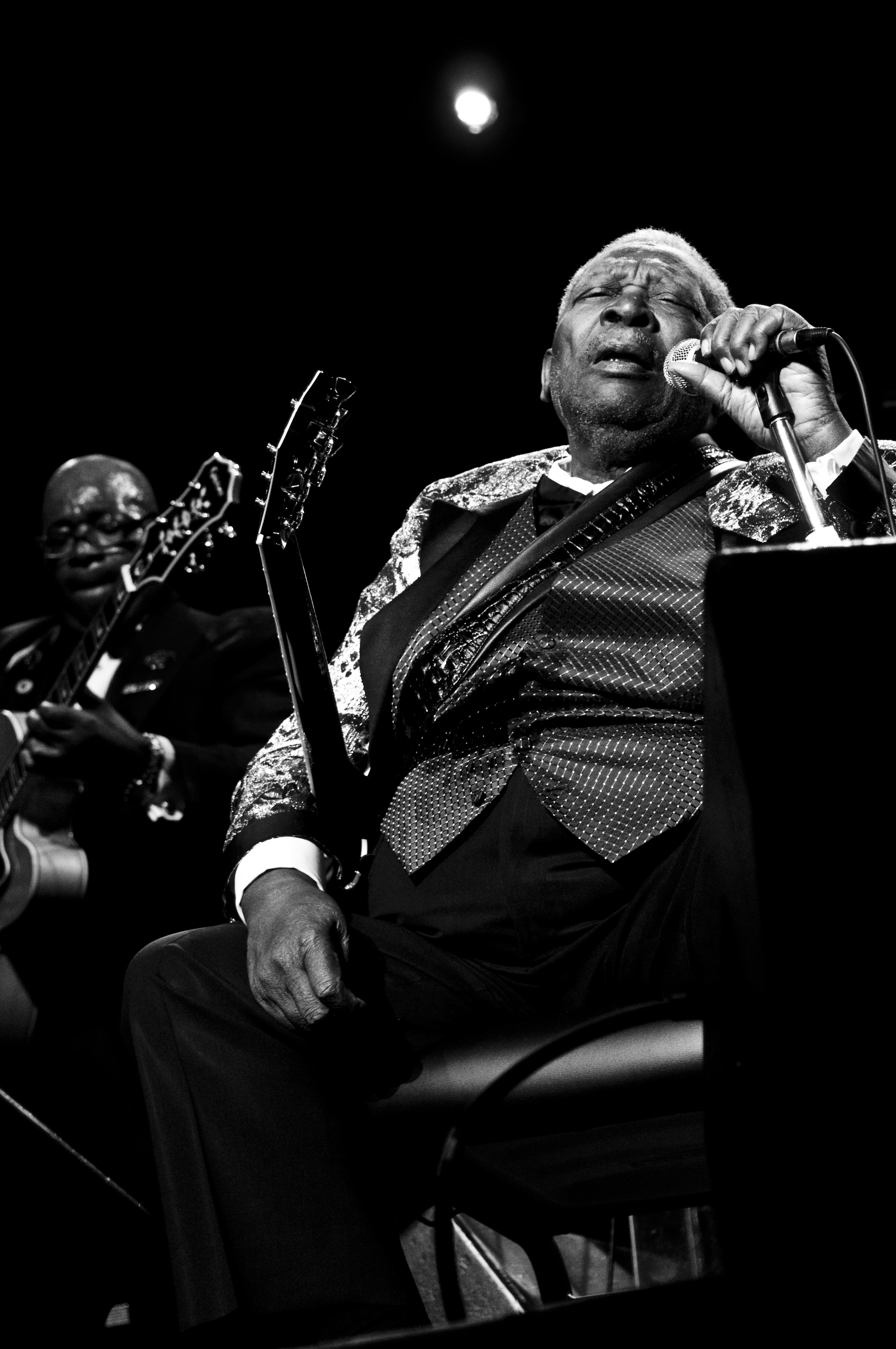 King performing at the Fox Theater in Oakland, April 2009